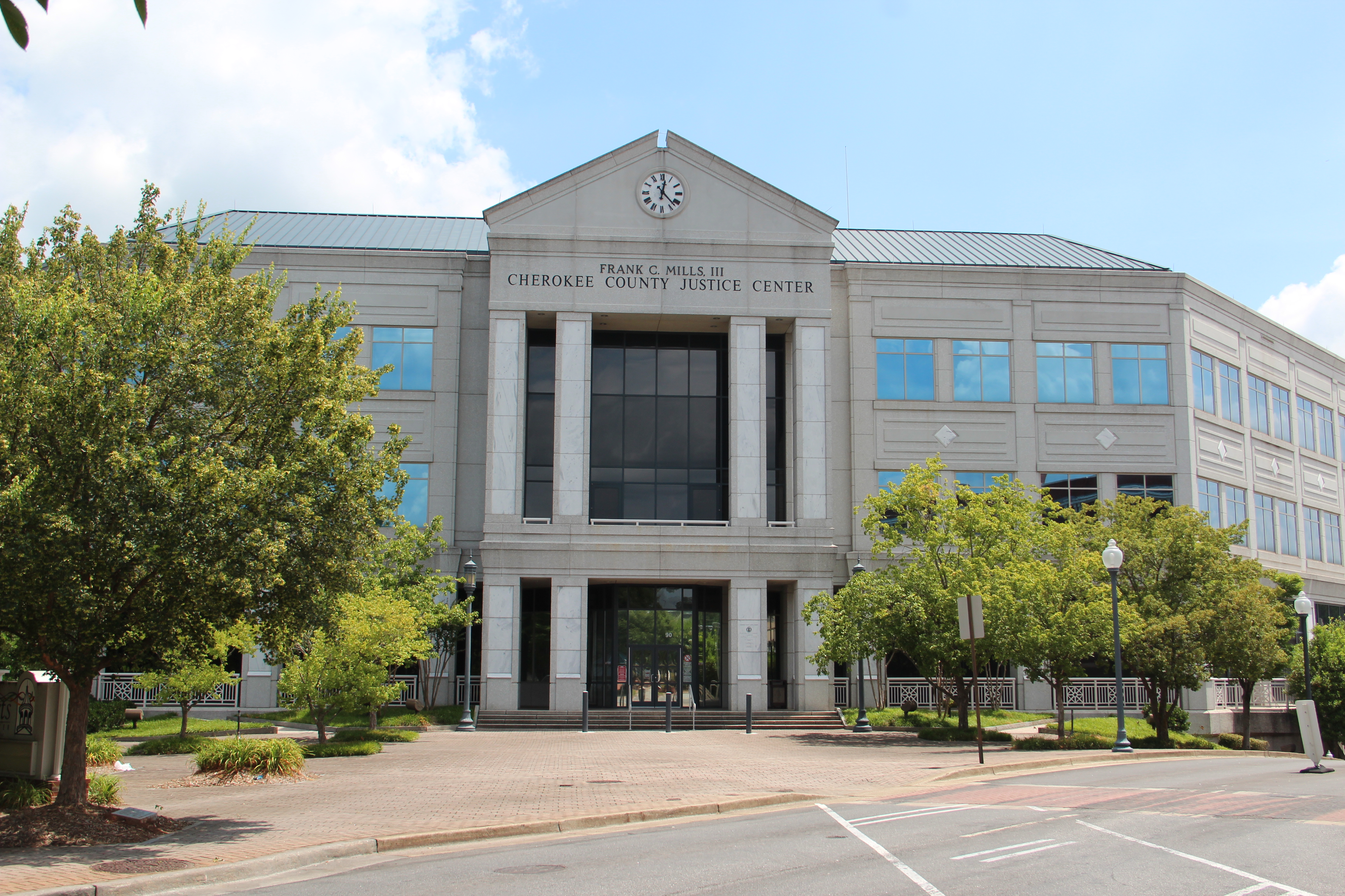 Cherokee County Superior Court